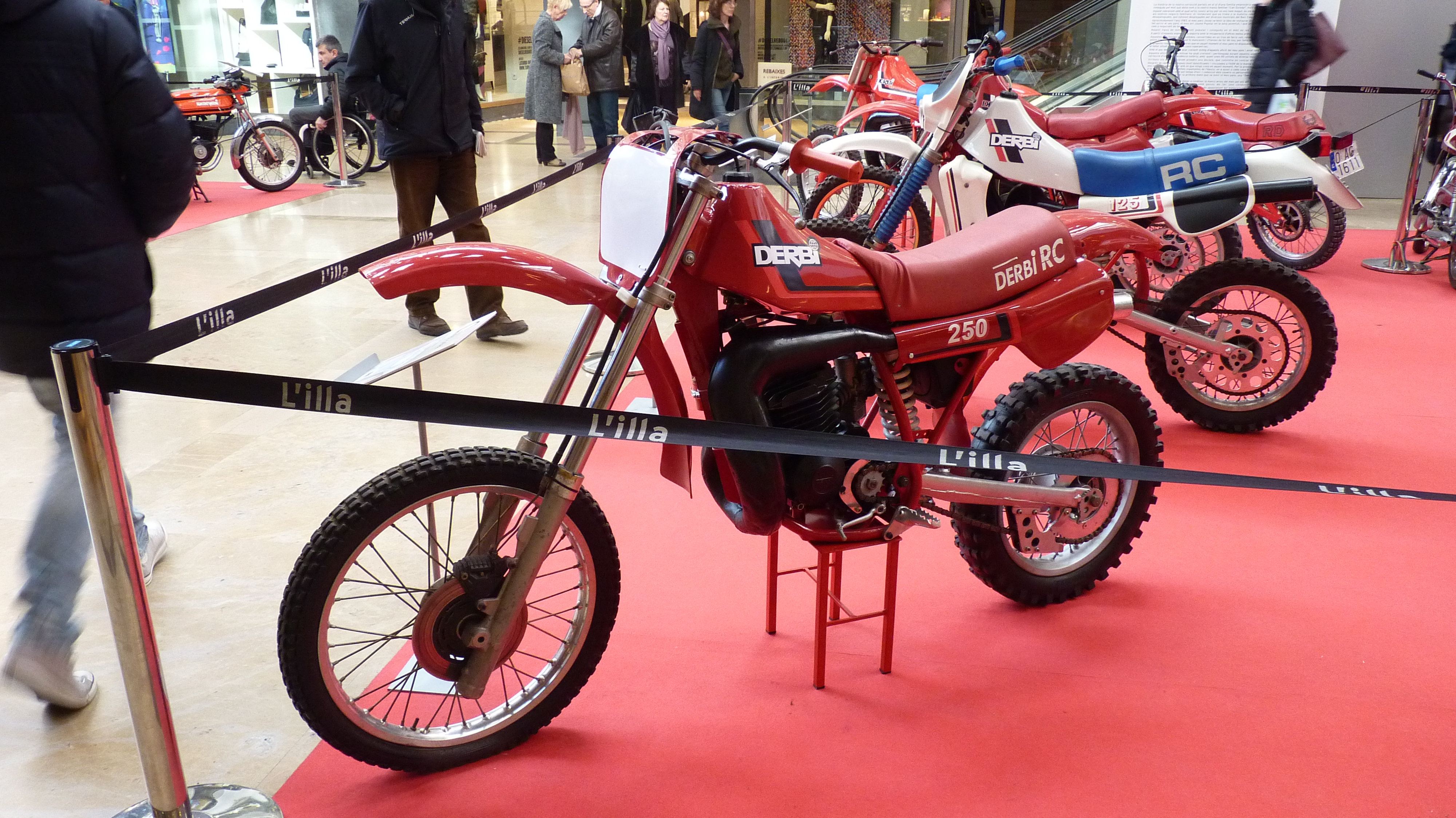 Derbi RC 250 Cross, 1983. Second serie.